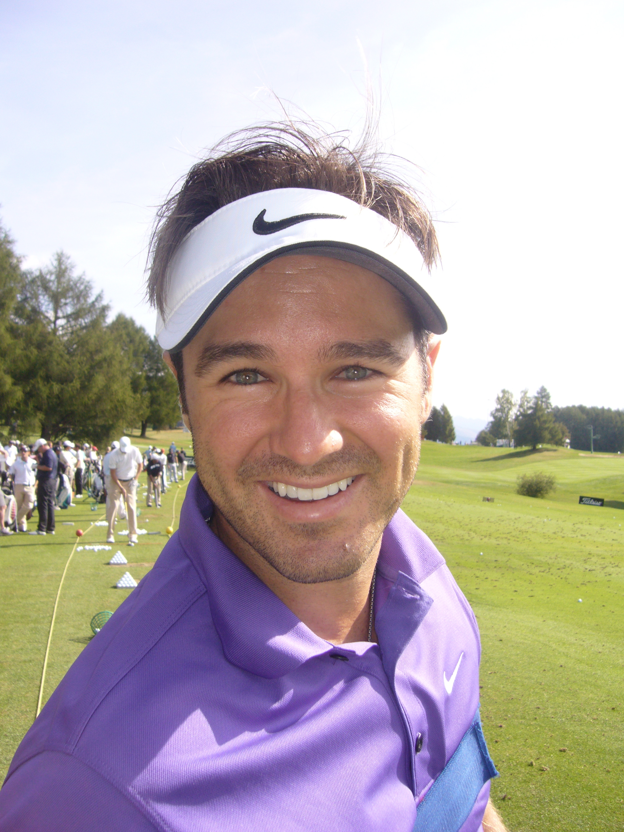 Trevor Immelman, professional golfer from Sth Africa